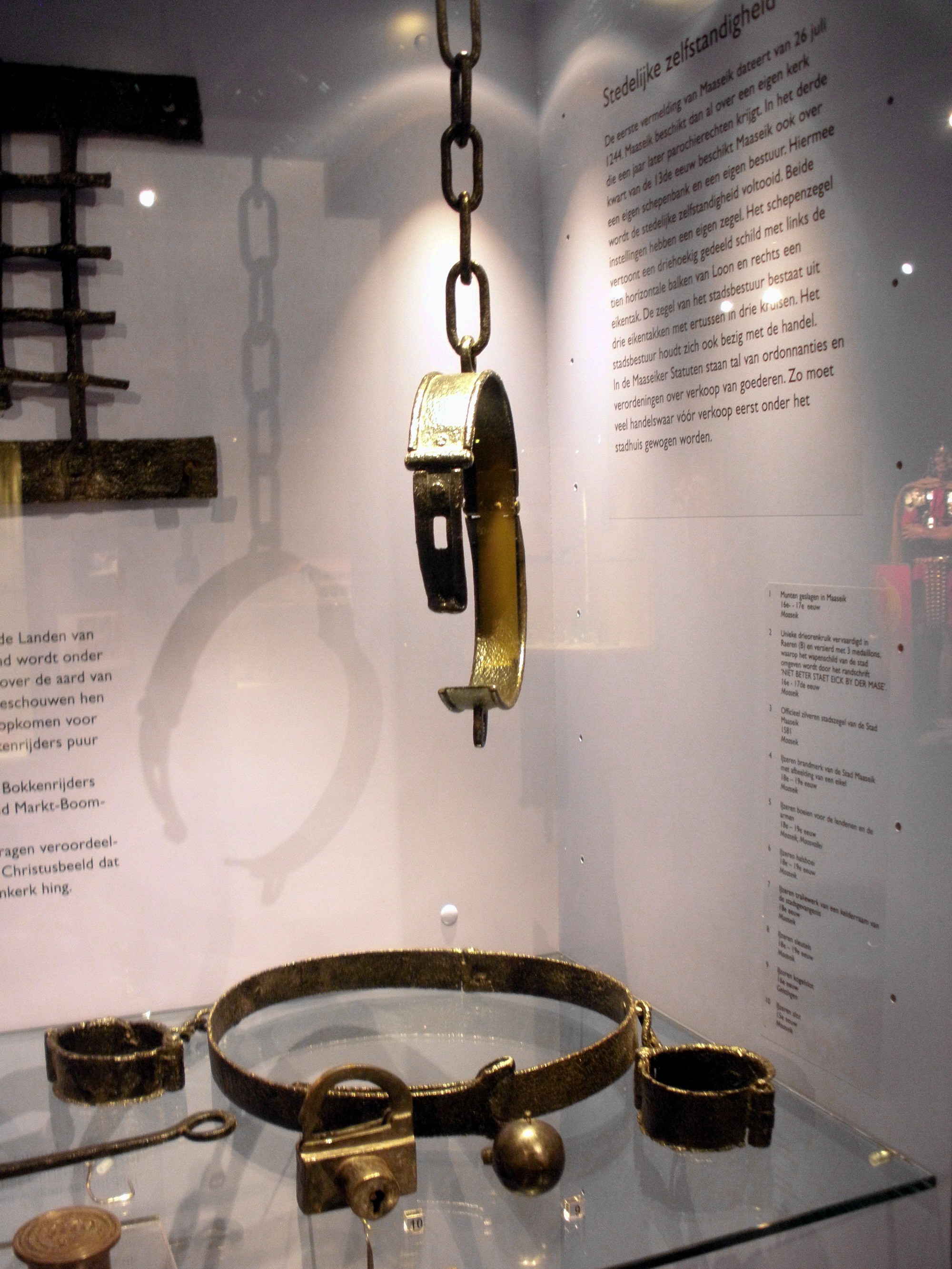 Maaseik, Belgium. Iron collar and cuffs (18th/19th c) in the Regionaal Archeologisch Museum (RAM), the local museum of history and archeology. The objects illustrate the fight against criminal gangs (Bokkenrijders - Goat Riders) in the second half of the 18th century in the region.